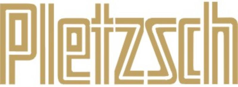 Logo